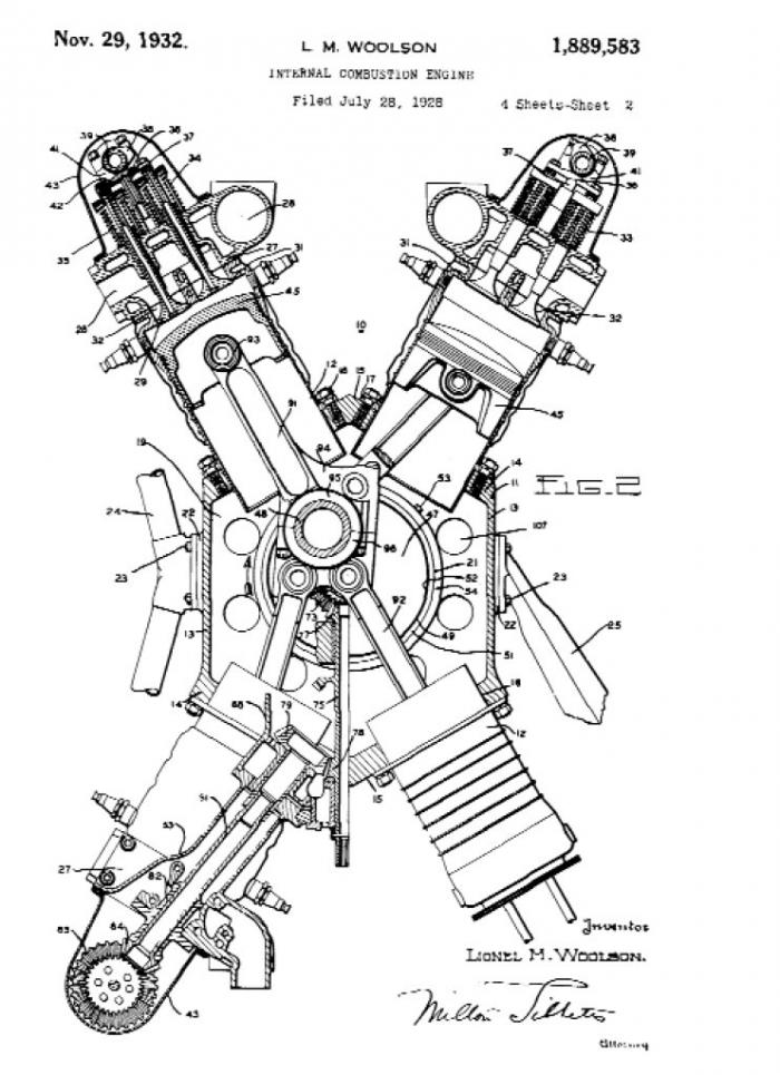 The Packard X-2775 engine fitted to the Kirkham-Williams X racer